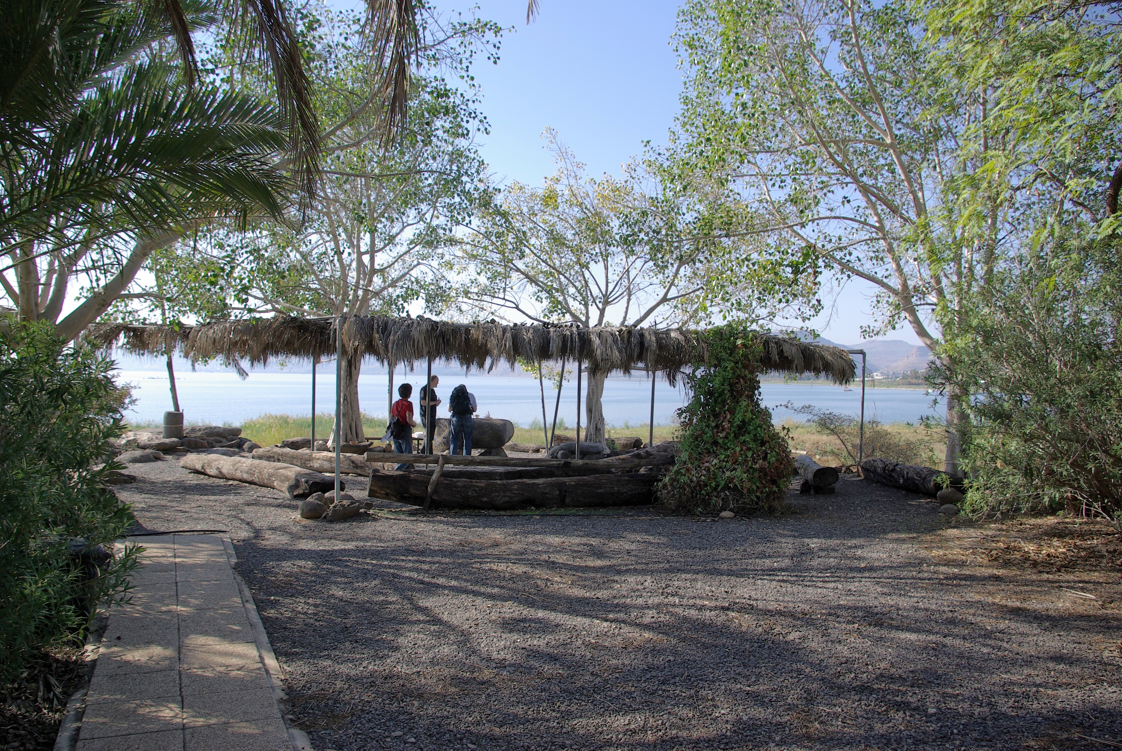 Dalmanutha or Dalmanoutha (δαλμανουθα)